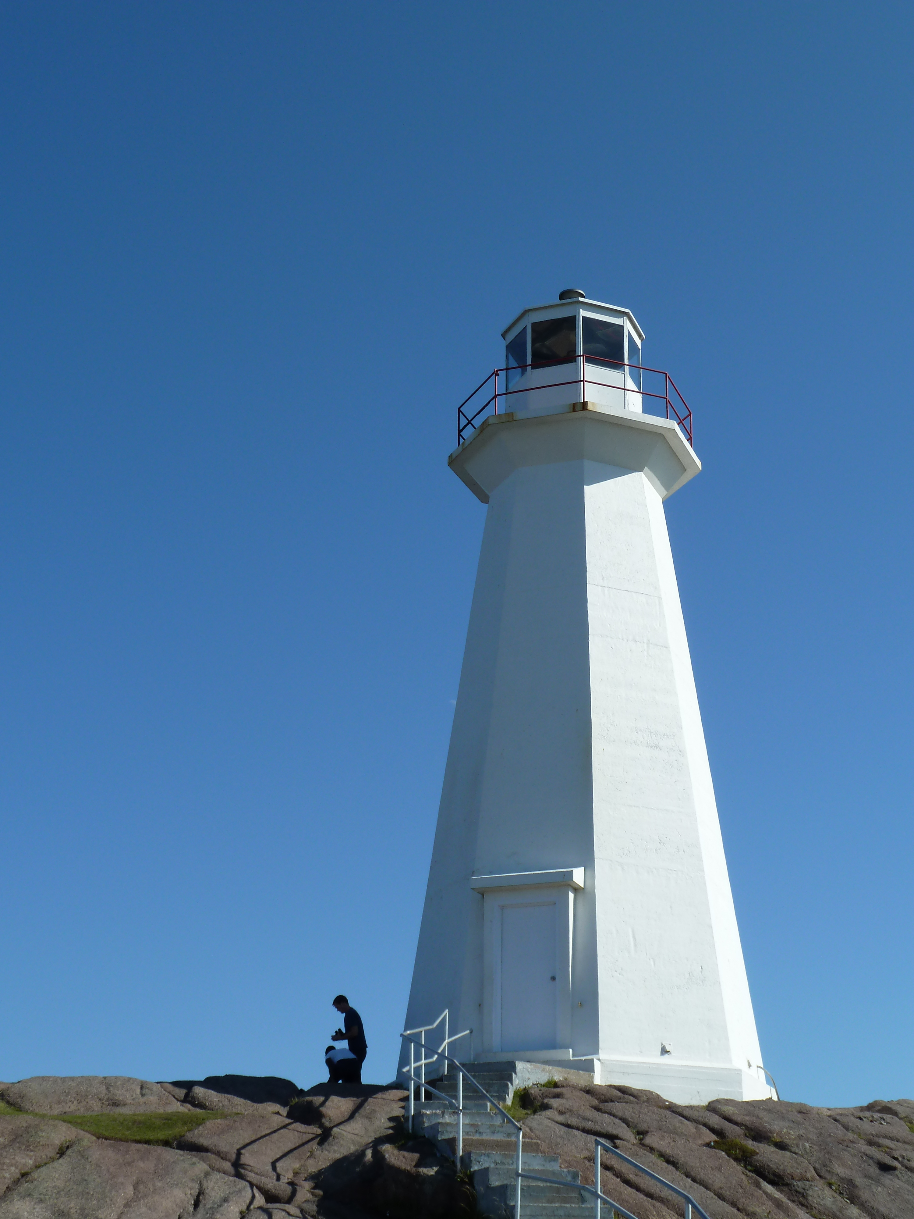 Cape Spear Lighthouse, Cape Spear, Newfoundland and Labrador